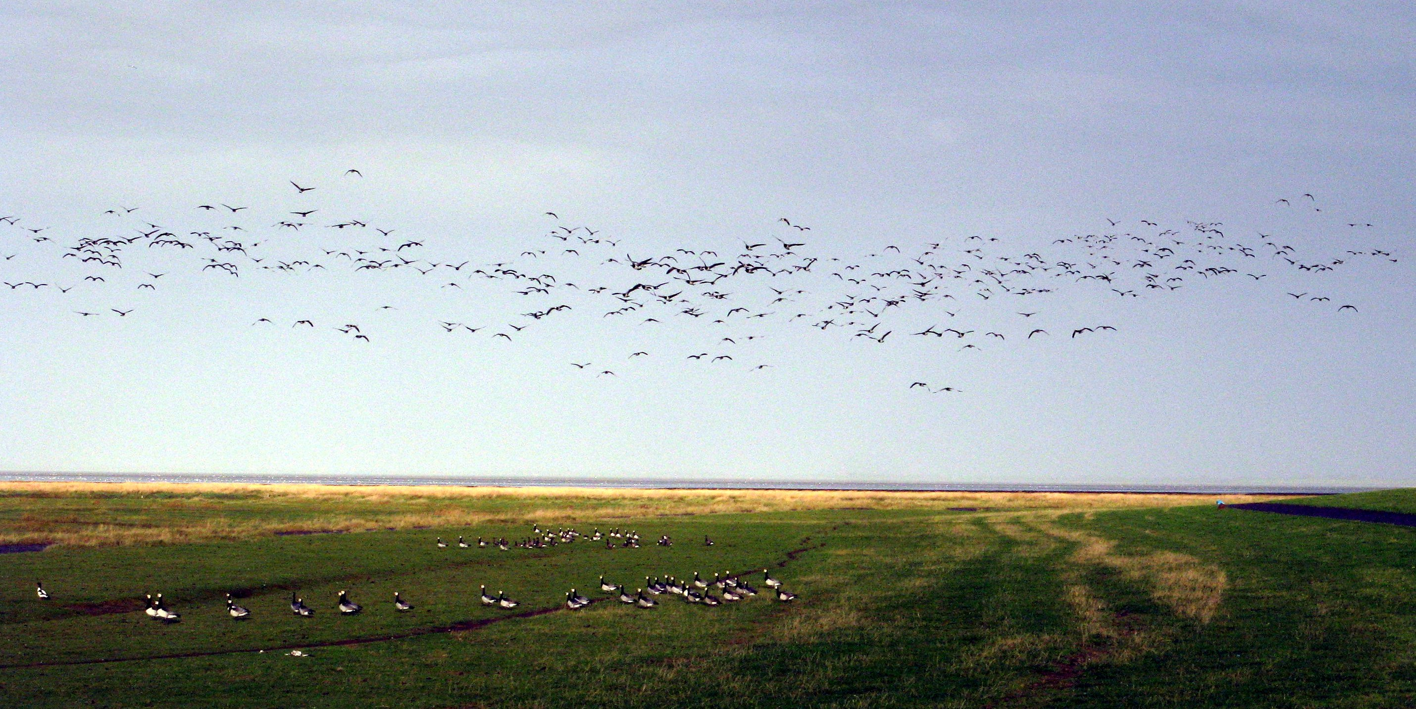 Flock of barnacle geese in autumn at the north sea salt marshes close to the eider estuary, schleswig-holstein, germany